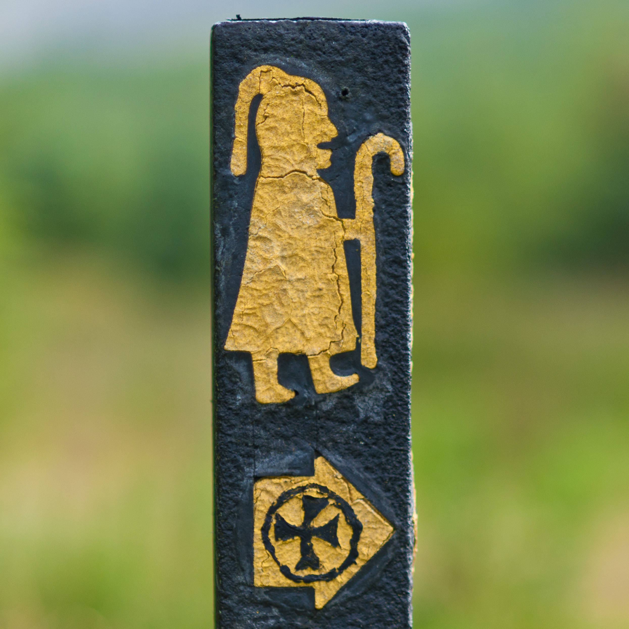 Waymarking sign comprising an image of a pilgrim with a Celtic tonsure, tunic and staff and a directional arrow in yellow inset with a cross of arcs in yellow, used in Ireland to denote a Pilgrim Path developed by the Heritage Council. The pilgrim image based on an image on a stone at pilgrimage site in County Cork. The cross of arcs is one of the main symbols of pilgimage in Ireland.